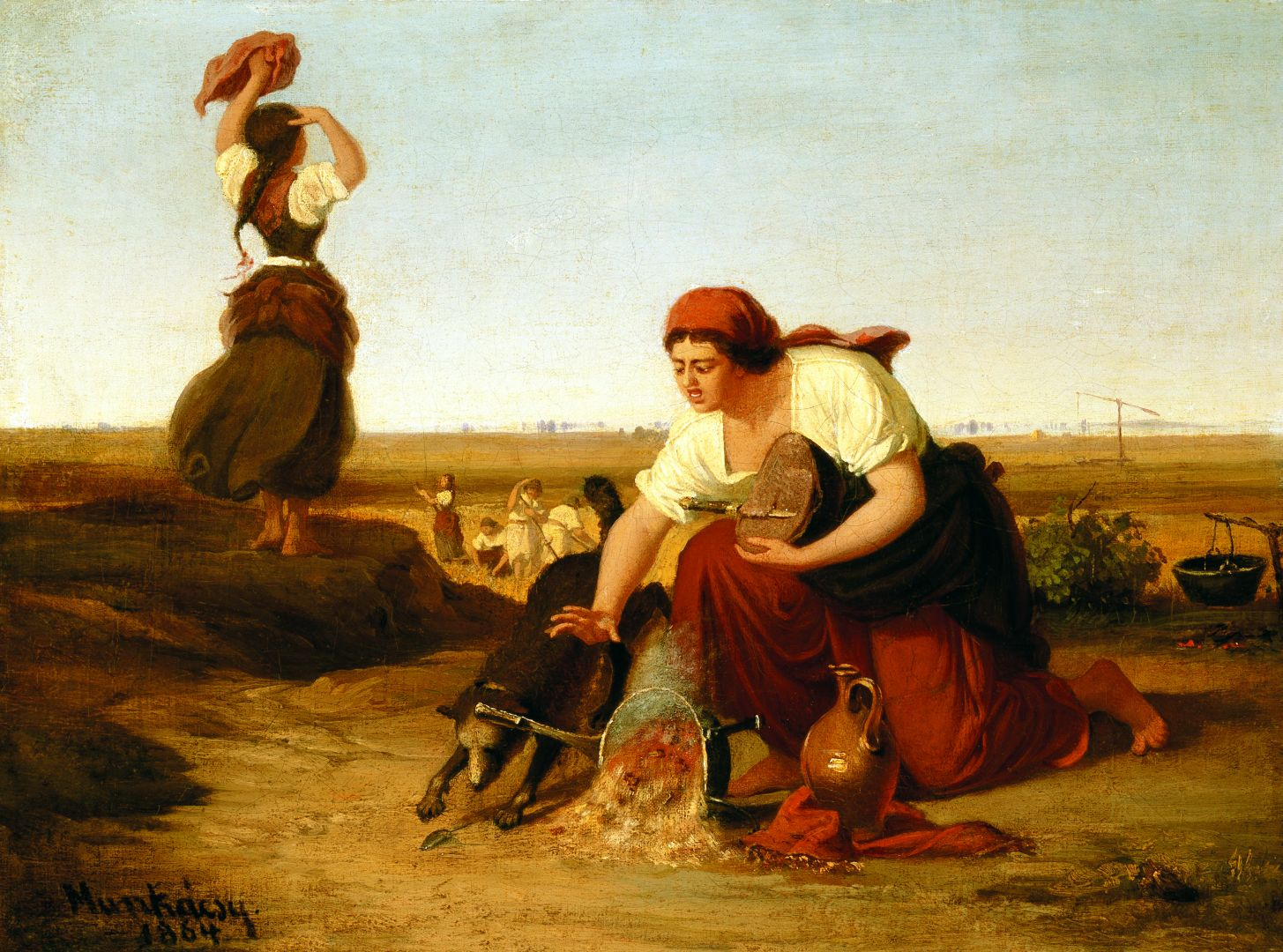 The Cauldron